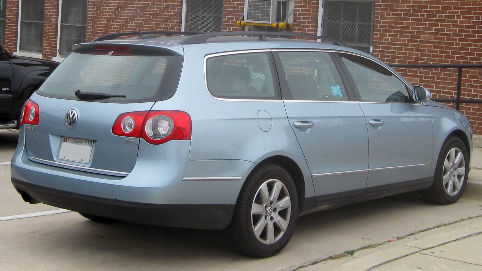 2006-2009 Volkswagen Passat photographed in College Park, Maryland, USA.